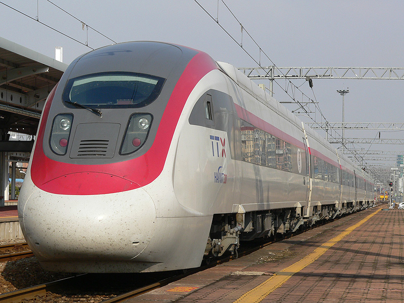 Korean Tilting Train Hanbit200 (TTX, Tilting Train eXpress)